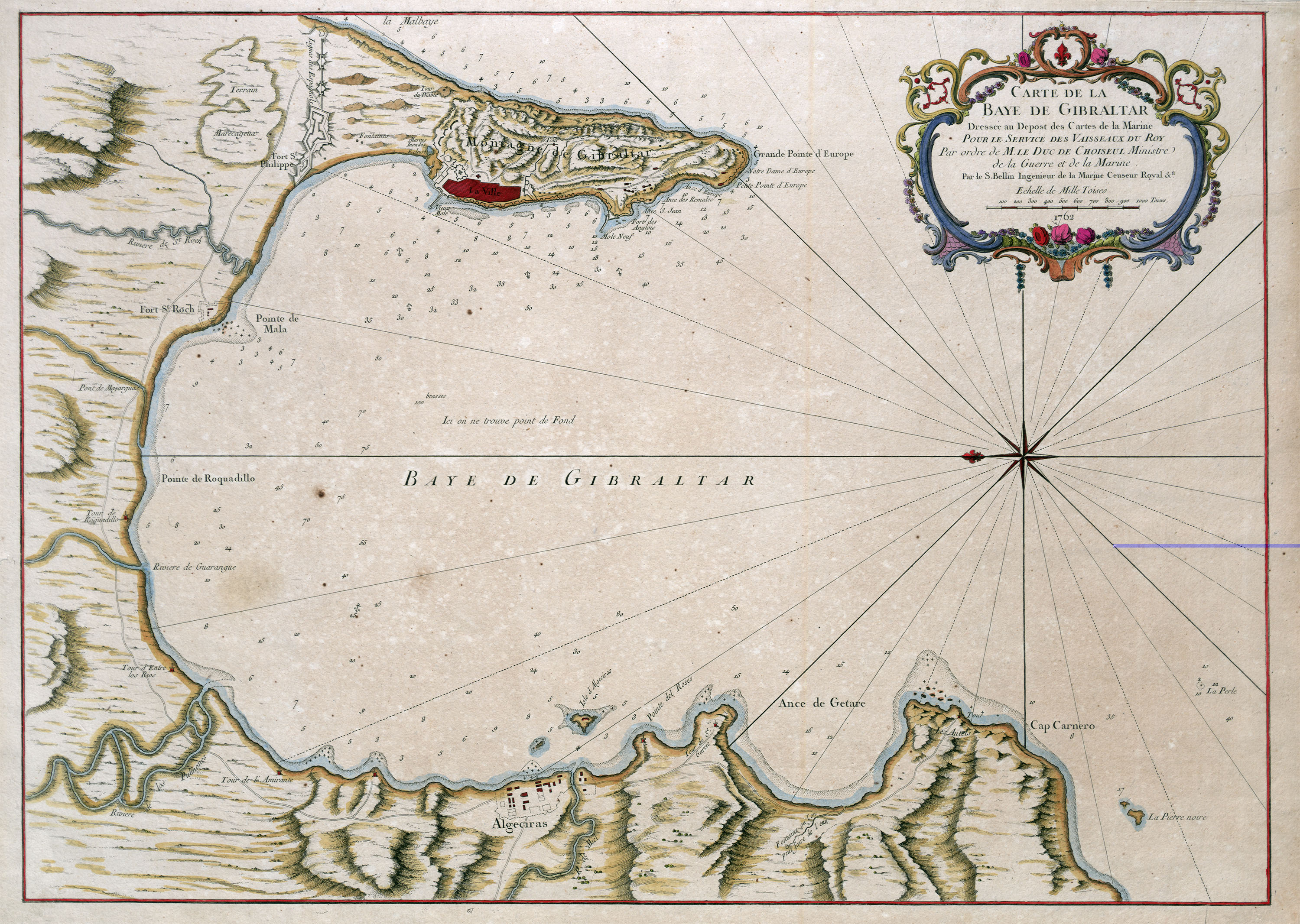 Carte de la baye de Gibraltar (Chart of the Bay of Gibraltar) Nautical chart Copper engraving Color 42 x 58 (47 x 63) cm. Scale 1000 toises = 7.1 cm. (ca. 1 : 27,408) Digital copy by Biblioteca de Andalucía